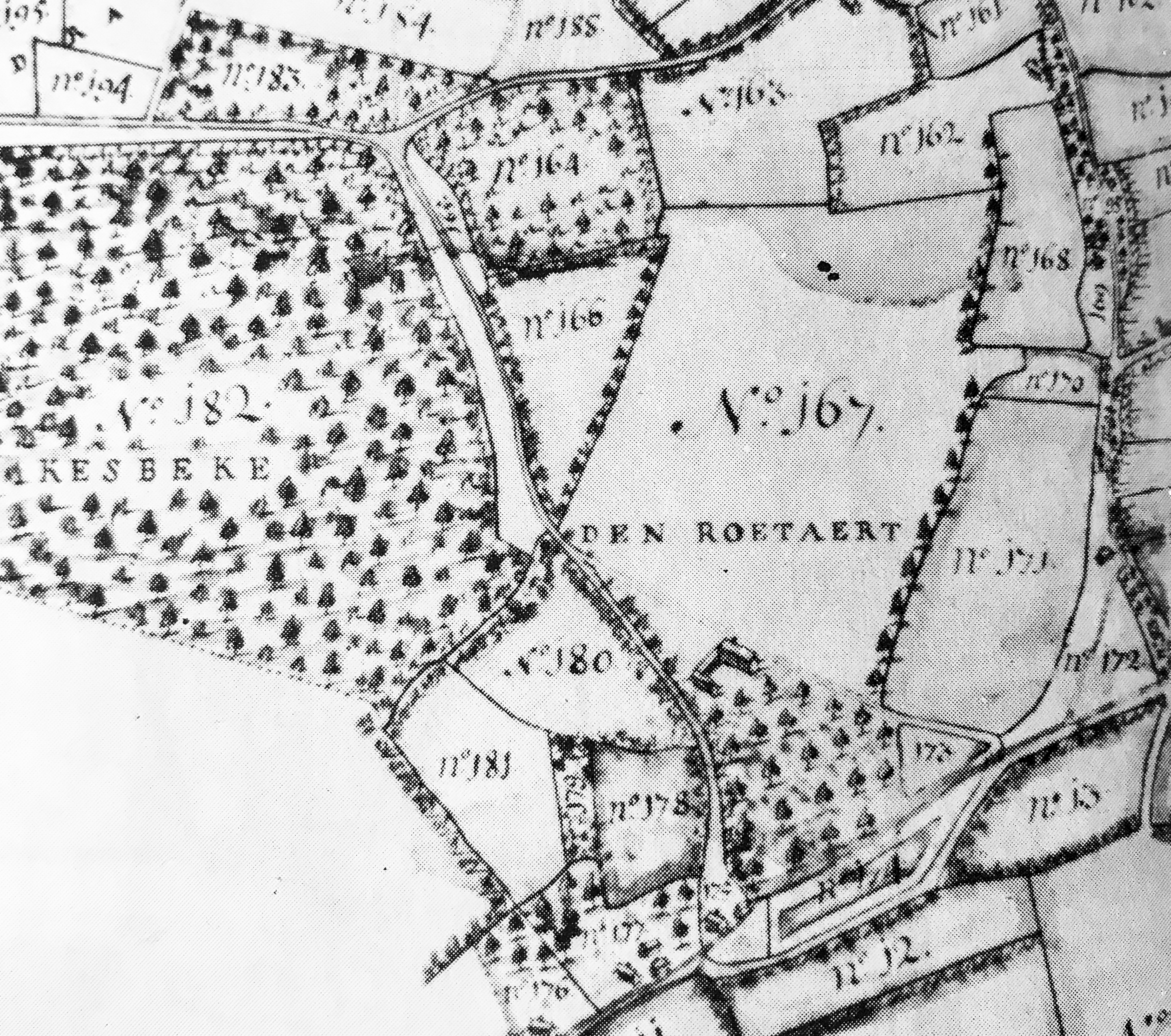 Map showing the fief of the Roetaert (N. 167) from a map of Uccle by Charles Everaert. This fief was located in Neerstalle, between the Kersbeek woods and the Ukkelbeek. Its surface amounted to 39.78 acres of land and meadows and it included the manor of Roetaert. It belonged successively to: 1) Demoiselle Anne Marie Pauwels, widow of Sieur Henri van Nijs, per purchase on 19 July 1692 from the heirs of Guillaume Lemmens. 2) Lambert van der Meulen, husband of Élisabeth Cosyns, per purchase from the heirs of François Opdenbosch, on 22 November 1718. 3) Lambert Benoît François van der Meulen, his son, after his father's death. 4) Demoiselle Élisabeth van der Meulen (1720-1769), wife of Sieur Jean-Baptiste van Dievoet (1704-1776), on 24 October 1754. 5) François-Joseph van Dievoet (1754-1795) after his mother's death on 11 December 1769. 6) Demoiselle Marie Élisabeth van Dievoet (1752-1828), wife of Sieur Charles Marie Joseph Leyniers (1756-1822) per purchase from her brother François Joseph van Dievoet on 24 November 1784, ten years before the end of the Ancien Regime in modern day Belgium.